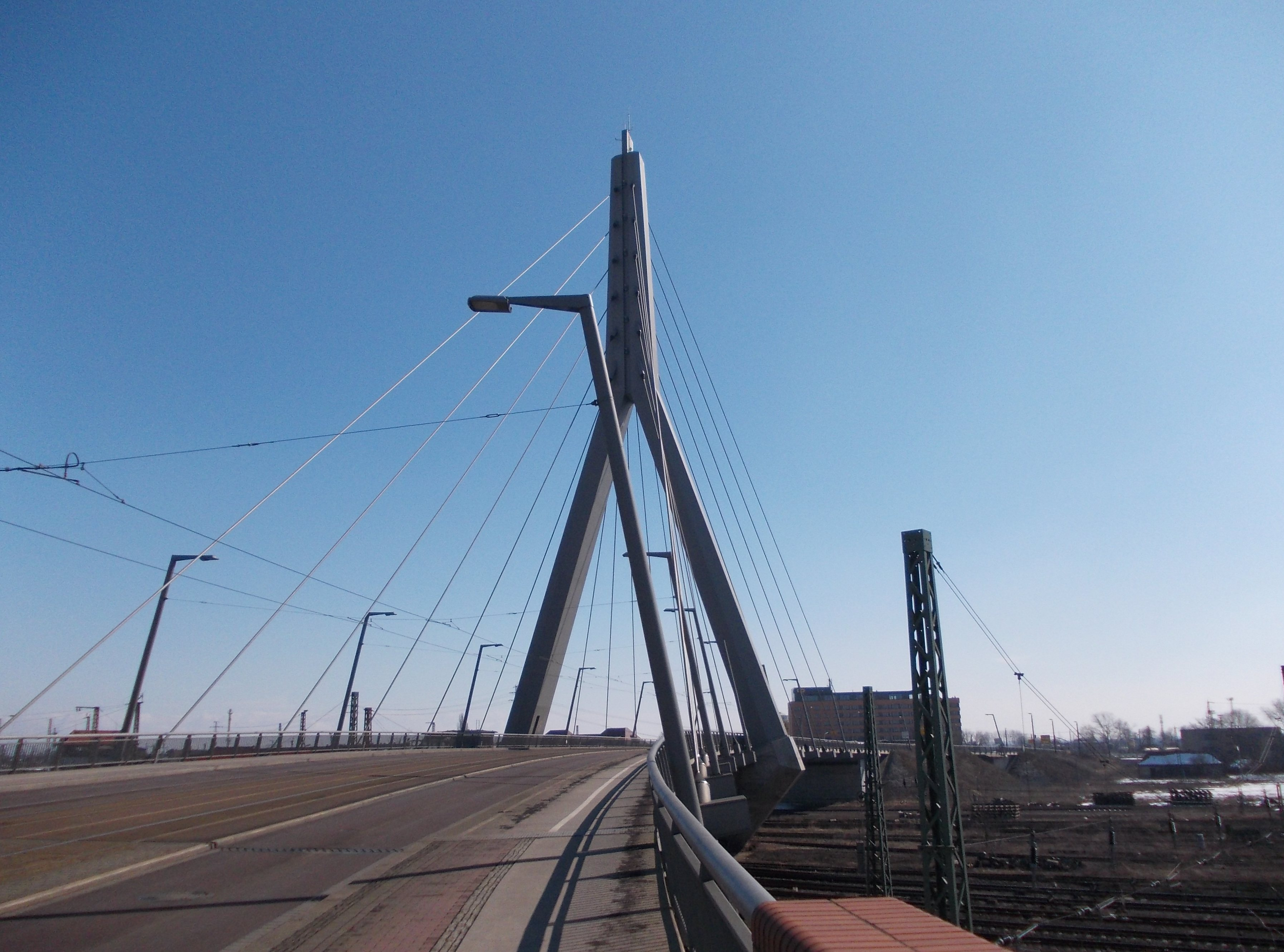 Berliner Brücke in Halle (Saale)